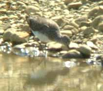 Green Sandpiper my photo released to Wikipedia